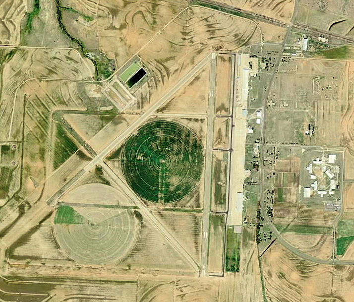 USGS digital orthophoto of Childress Municipal Airport in Texas